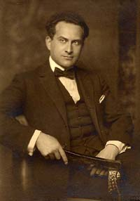 Štefan Osuský (1889-1973). Czechoslovakian politician.